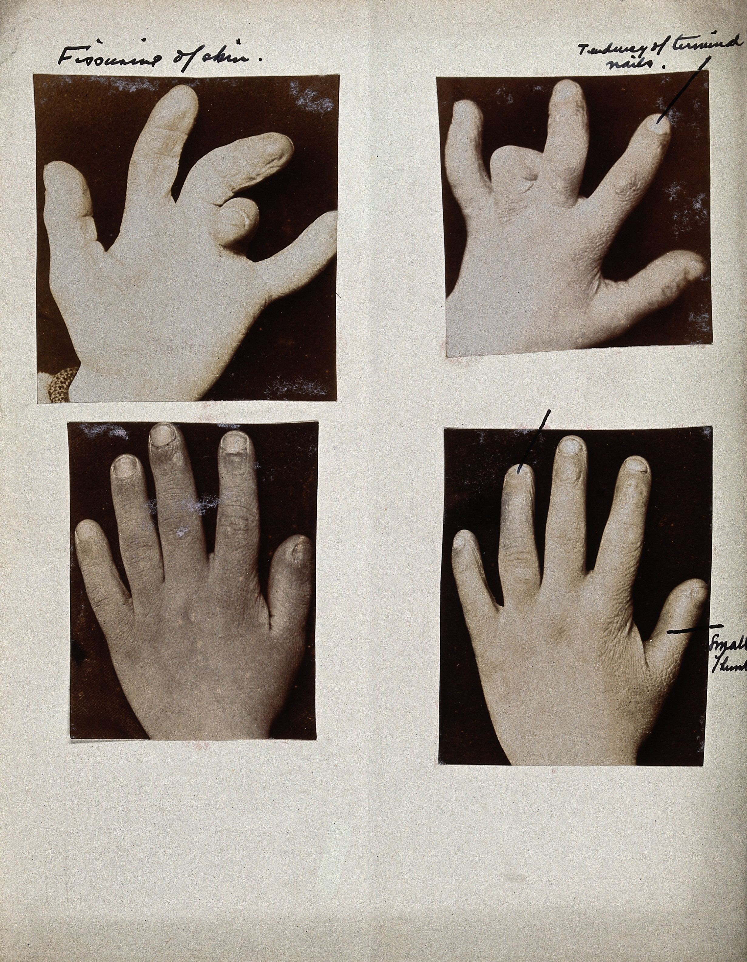 Down's syndrome affecting the hands and fingers. Four photographs. Iconographic Collections Keywords: George Edward Shuttleworth